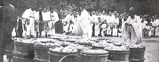 Shinto festival in Ise, Mie, Japan.